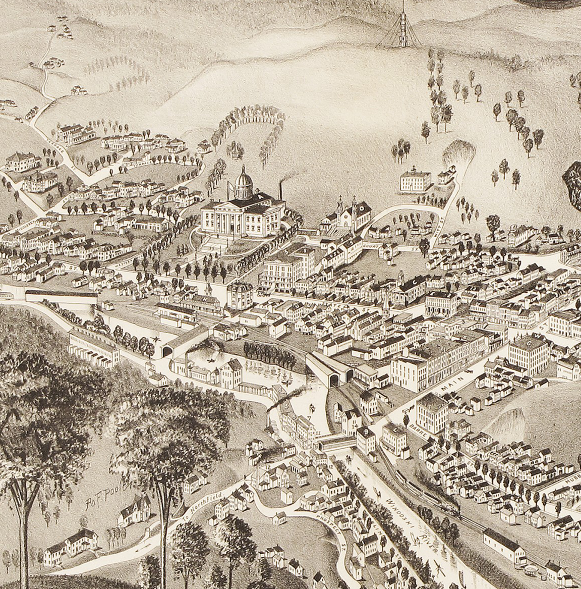 Bird's-eye view of Montpelier, 1884.